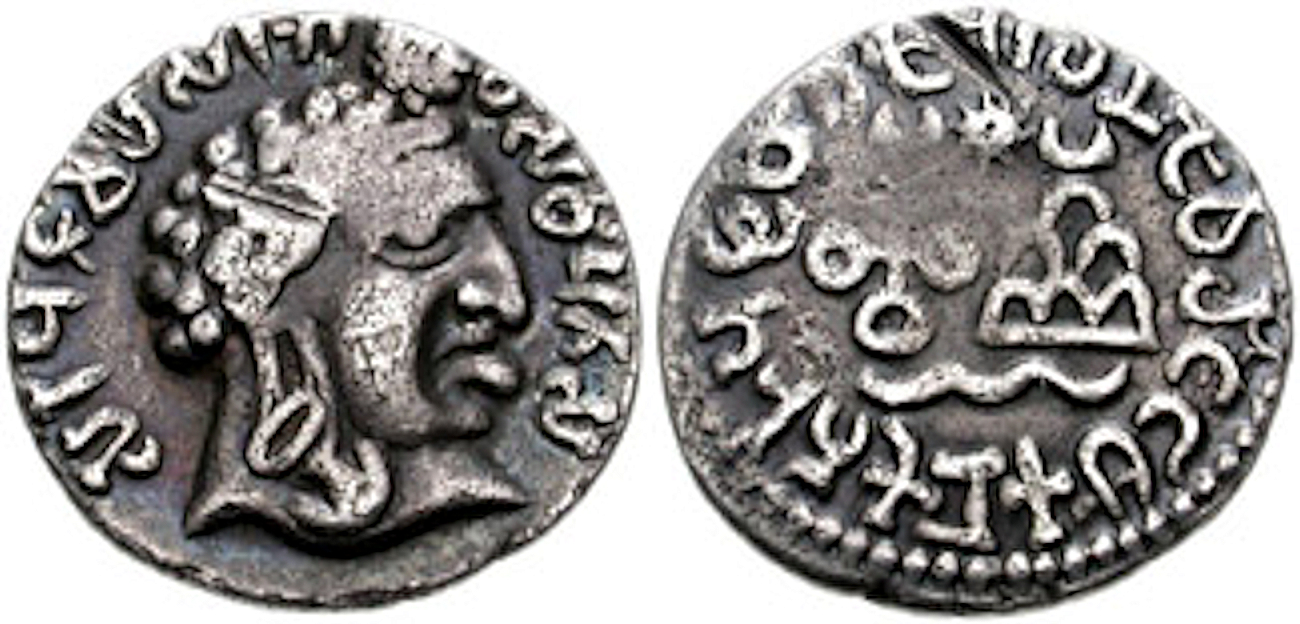 Satavahanas. Sri Vasisthiputra Pulumavi